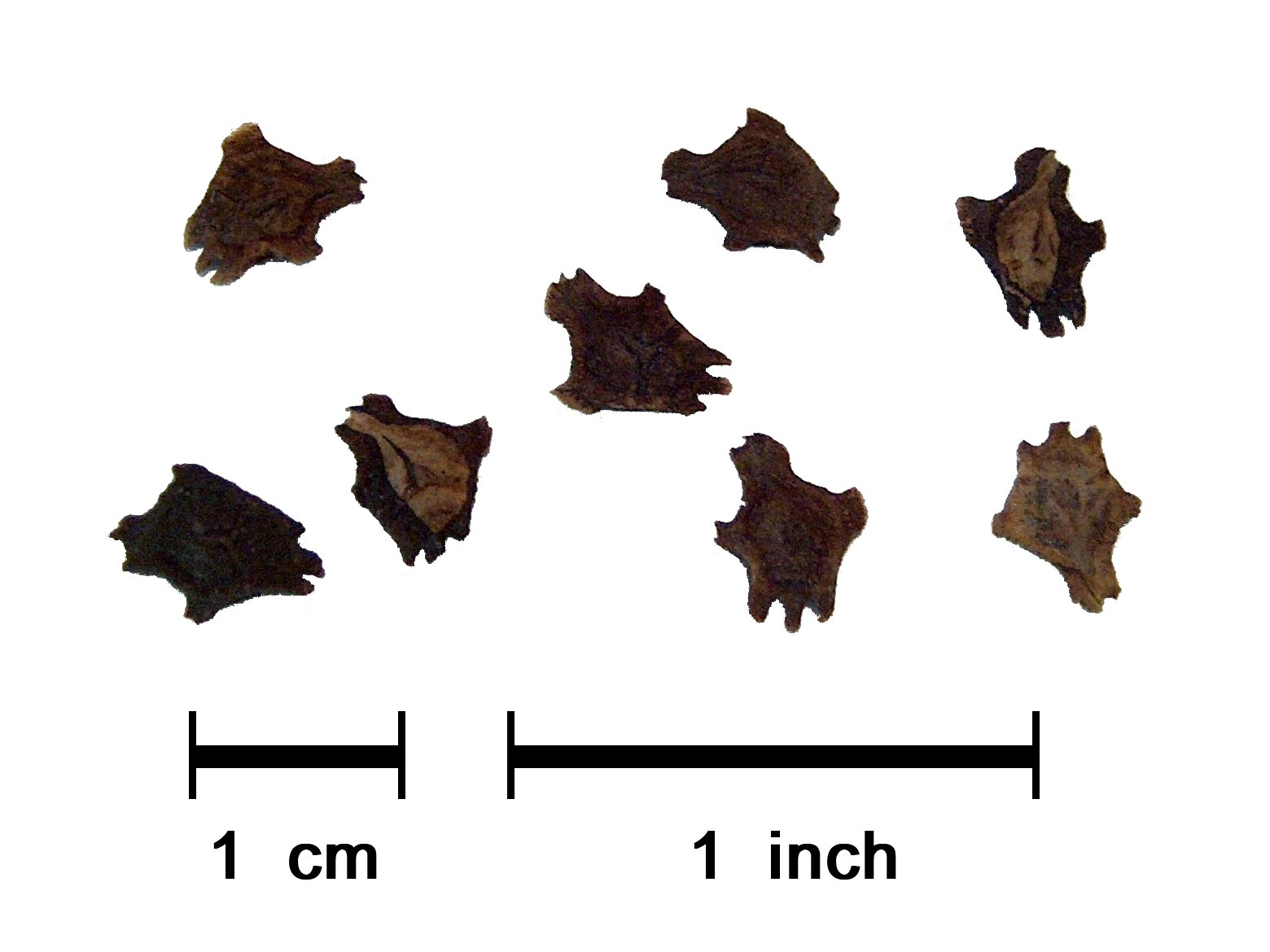 Seeds of Cyclanthera brachystachya (SER.) COGN